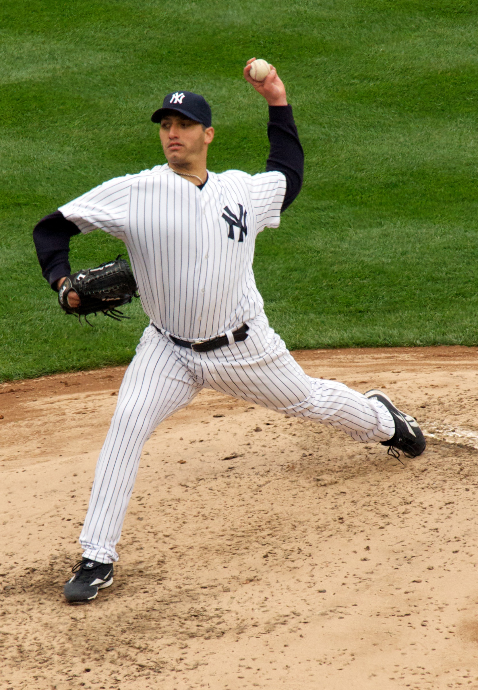 Andy Pettitte pitching against the LA Angels of Anaheim on April 13, 2010